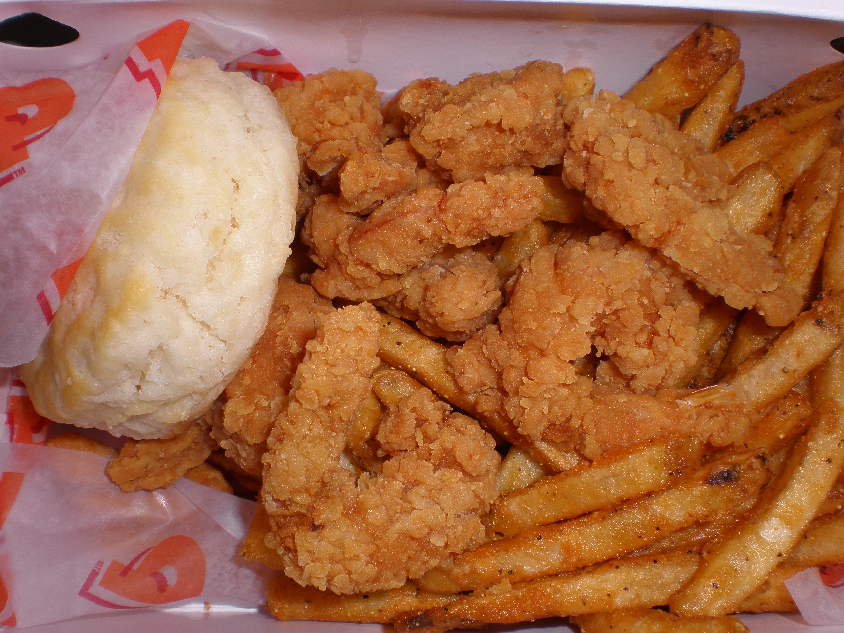 A Popeyes Chicken & Biscuits butterfly shrimp meal.